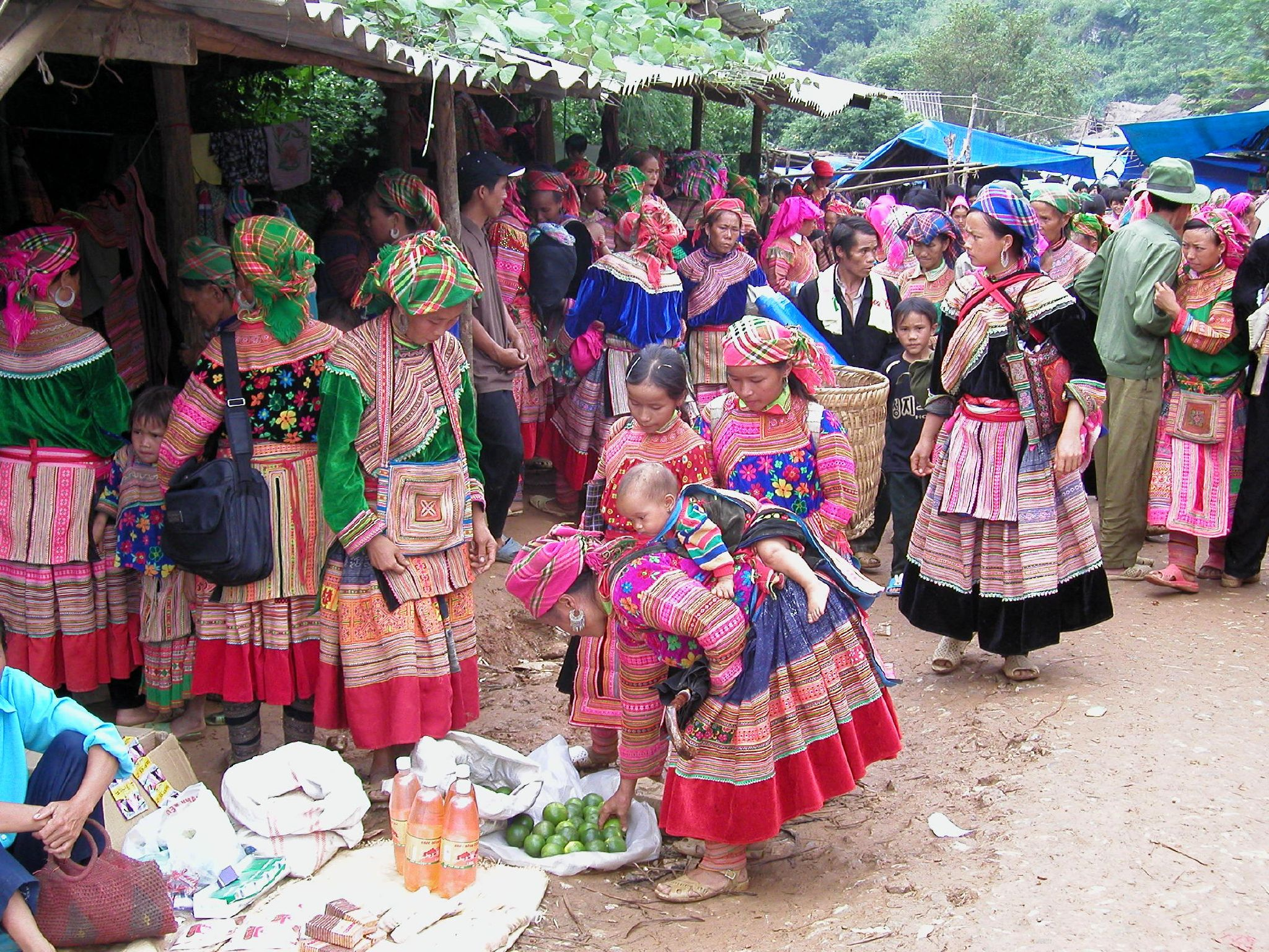 Flower Hmong women